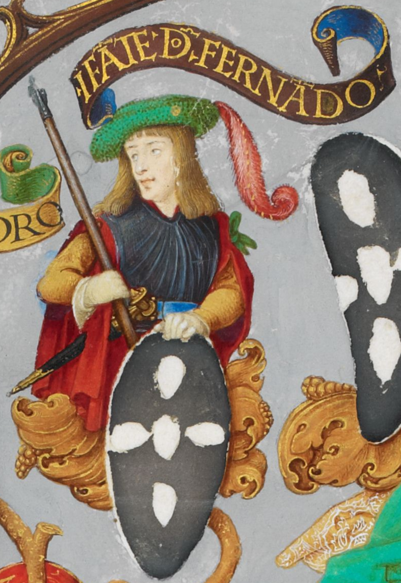 Ferdinand (1188-1233), Infante of Portugal and, later, Count of Flanders; son of King Sancho I of Portugal, in a 16th-century miniature.